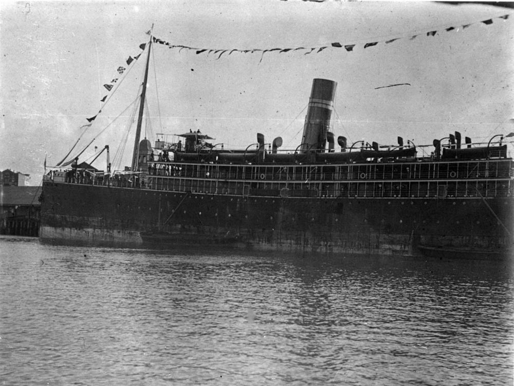 Kyarra (Ship)